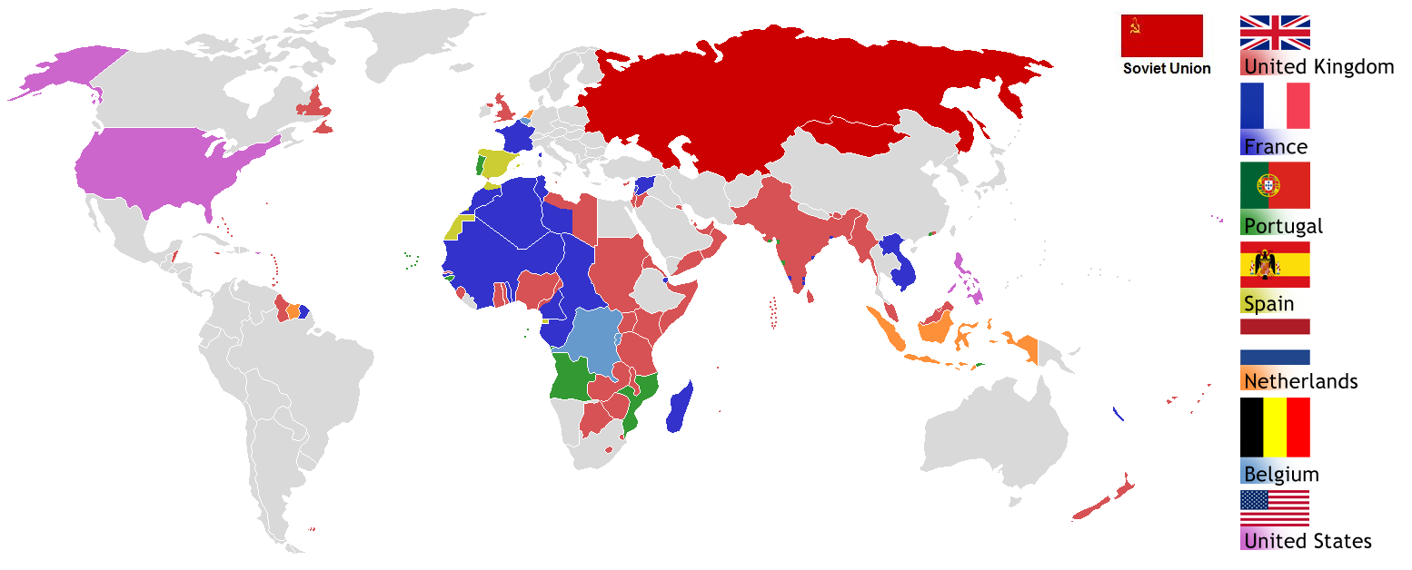 Updated Colonization 1945 with New Zealand and more attractive legend including flags